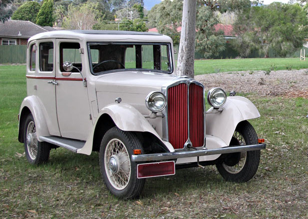 1933 Rover 10 Special saloon Rover Car Club of Australia RCCA 50th Anniversary Display 2008